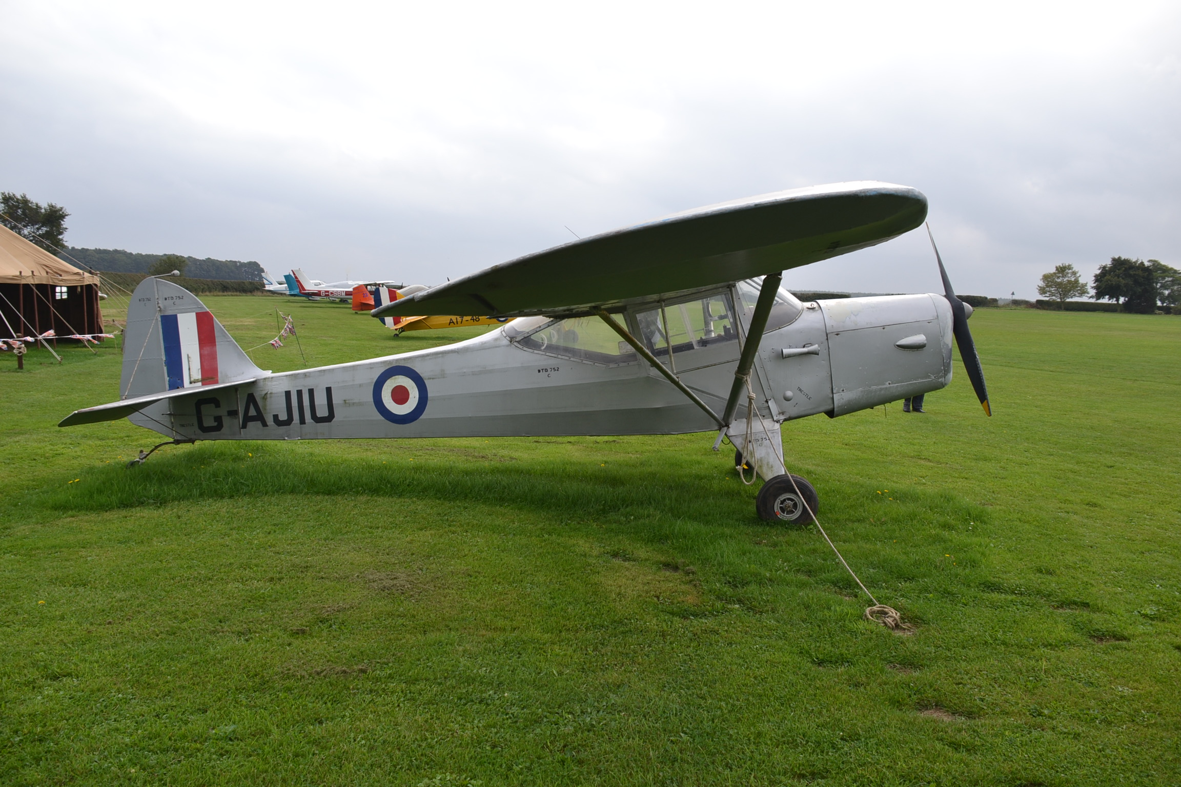 Auster J/1 at Netherthorpe,Notts.,20/09/14.